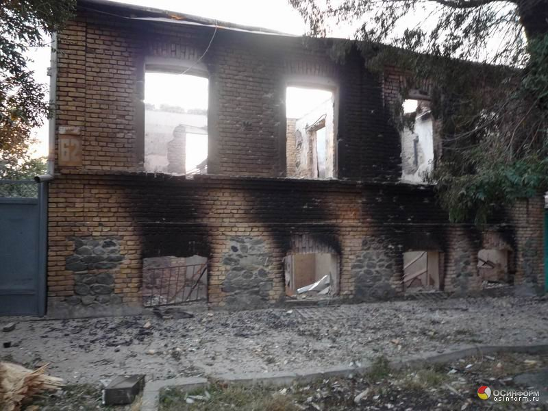 18 August 2008. Tskhinval after Georgian artillery bombardment